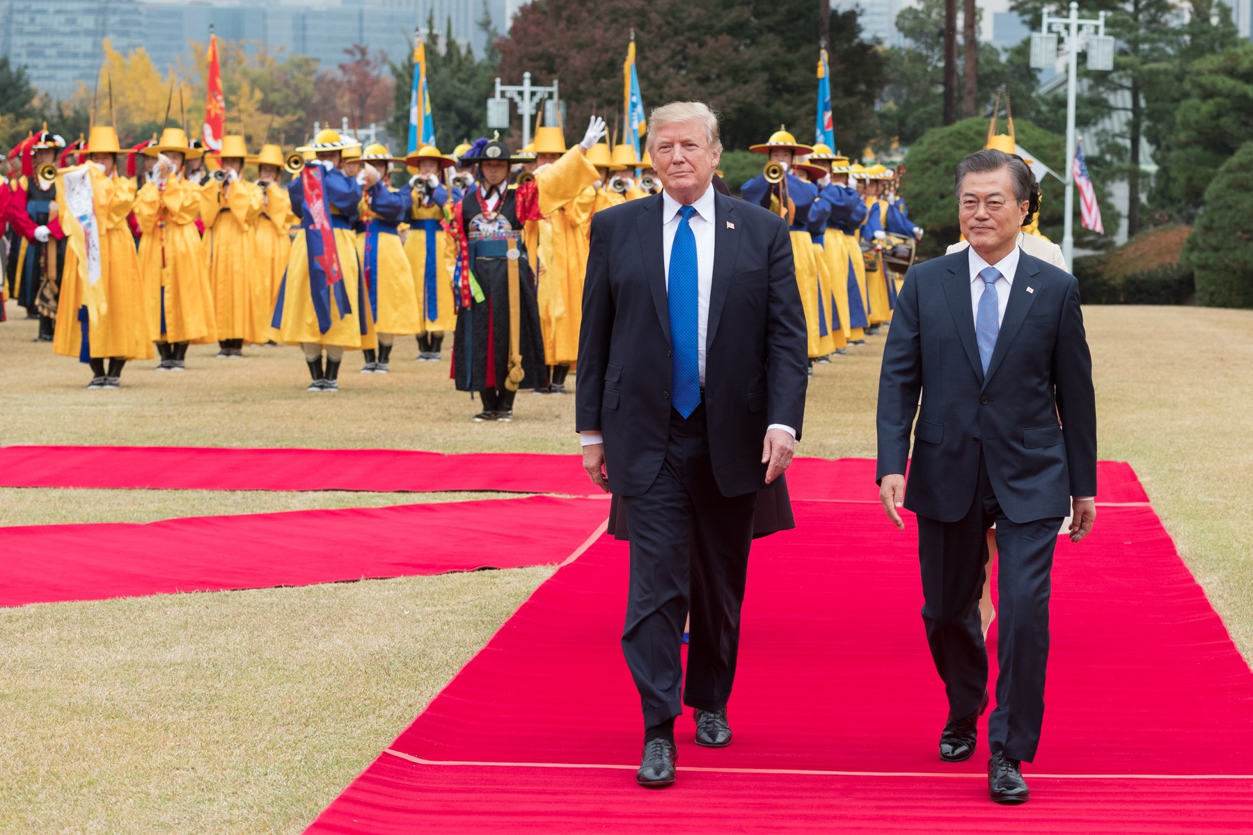 President Donald J. Trump and First Lady Melania Trump visit South Korea | November 7, 2017 (Official White House Photo by Andrea Hanks)